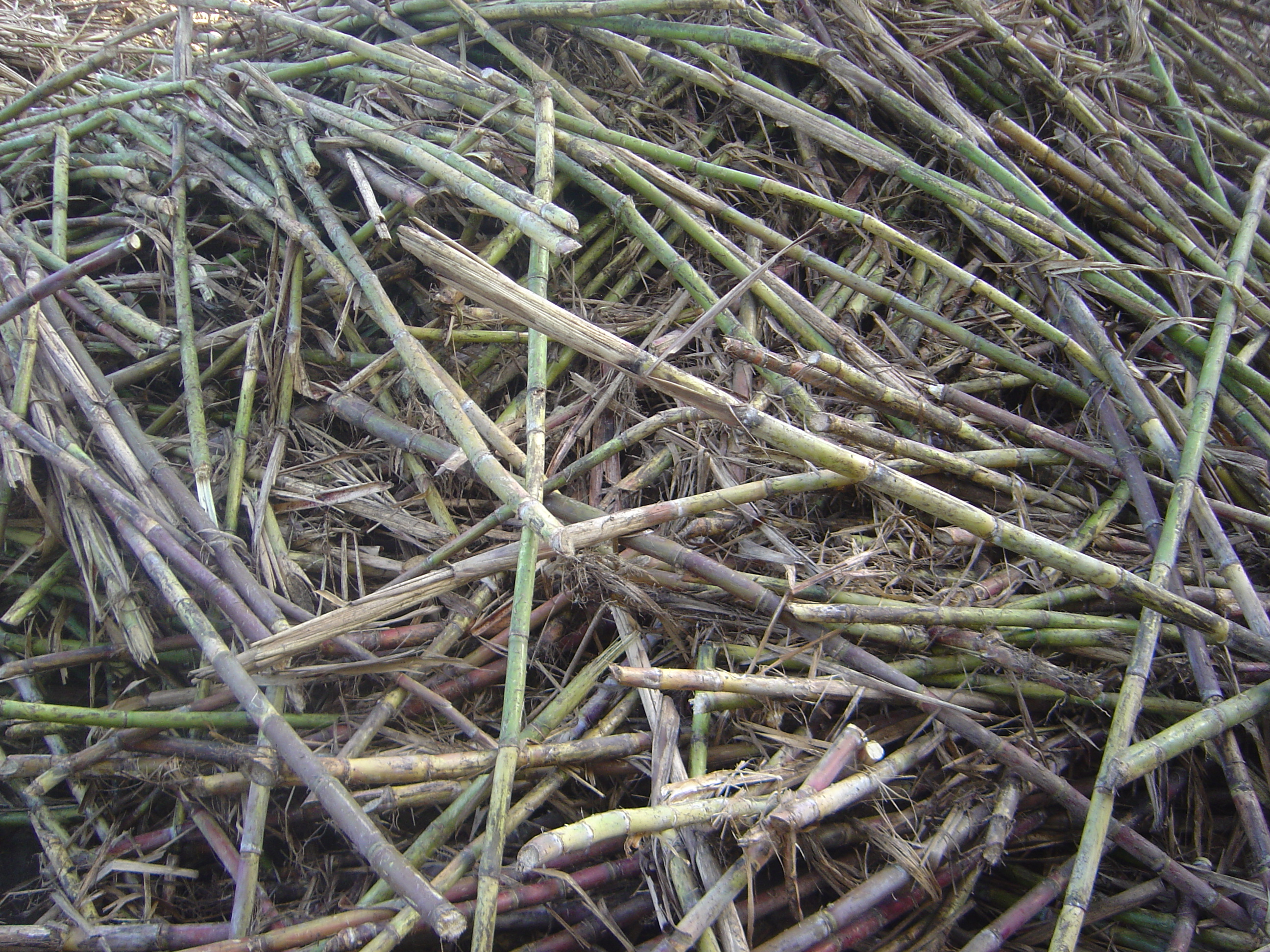 Cut sugar cane at the Bois-Rouge sugar plant on Réunion island